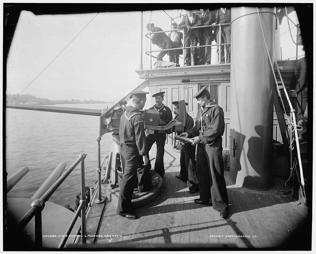 Photograph showing 6-pounder Hotchkiss gun and crew on U.S.S. Oregon.